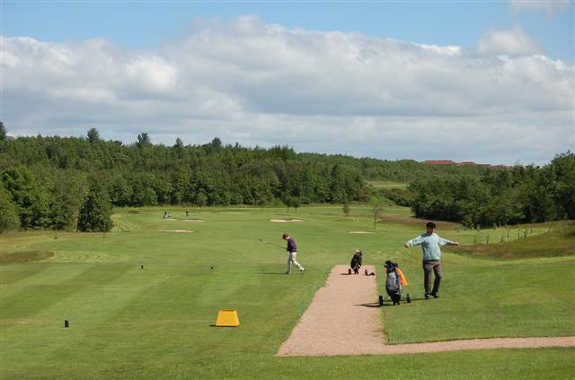 Golf course. The first tee at the Dora golf course in Cowdenbeath. 478284